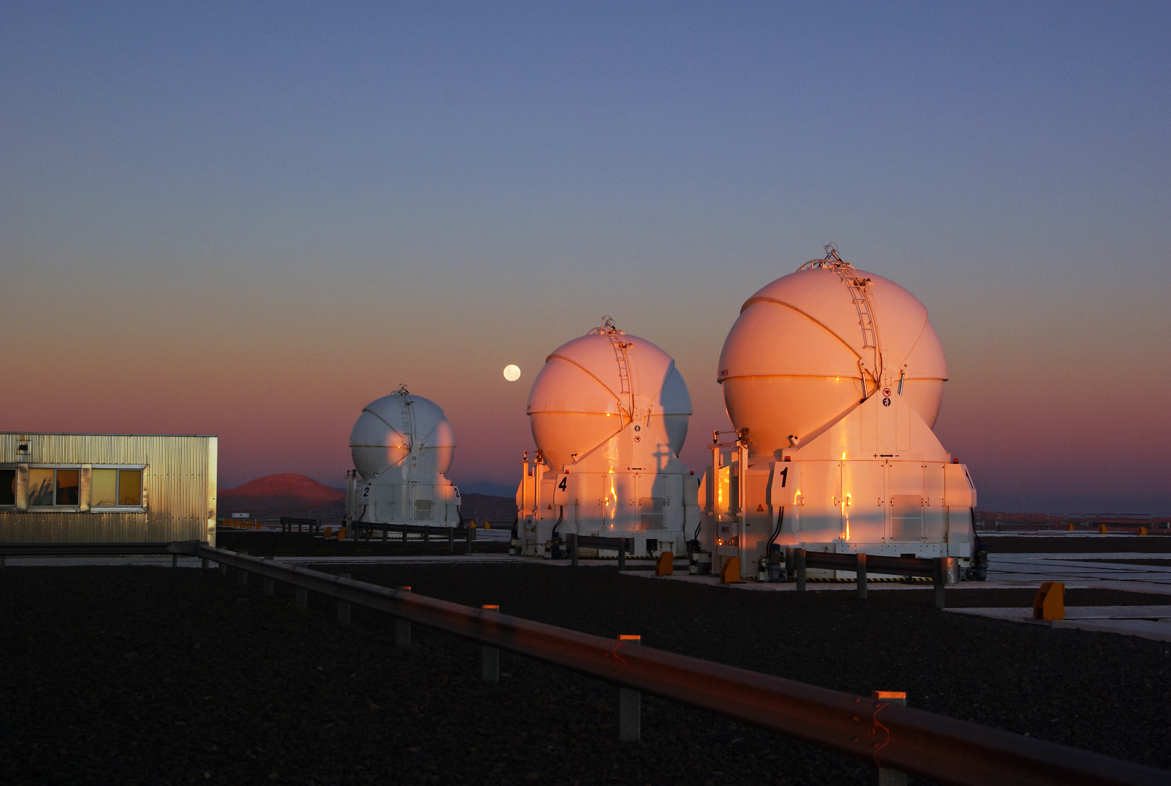 This photo shows the view to the east from Paranal Observatory, seconds after the Sun has disappeared behind the horizon. The orange glow of the sunset can be seen against the 1.8-metre VLT Auxiliary Telescopes, and the almost full Moon is hanging in the sky. But the image is more interesting still, thanks to an atmospheric phenomenon known as the Belt of Venus. The grey-bluish shadow above the horizon is the shadow of the Earth, and right above it is a pinkish glow. This phenomenon is produced by the reddened light of the setting Sun being backscattered by the Earth's atmosphere. As well as right after sunset, this atmospheric effect can also be seen shortly before sunrise. A very similar effect can also be observed during a total solar eclipse. The telescopes shown in the image are three of the four 1.8-metre Auxiliary Telescopes, housed in ultra-compact mobile enclosures. These telescopes are dedicated to interferometric observations, when two or more telescopes work together, forming a virtual mirror and thus allowing astronomers to see much finer details than can be seen with the individual telescopes working independently. Carolin Liefke took this photo during a visit to Paranal, and submitted it to the Your ESO Pictures Flickr group. The Flickr group is regularly reviewed and the best photos are selected to be featured in our popular Picture of the Week series, or in our gallery. Carolin works at the Haus der Astronomie (House of Astronomy) centre for astronomy education and outreach in Heidelberg, Germany, and is a member of the ESO Science Outreach Network (ESON). ESON brings ESO news to Member States and other countries by translating press releases and providing a point of contact for local media.